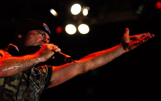 Bruce Dickinson perfoming with Iron Maiden